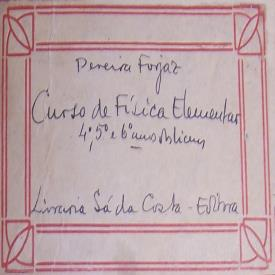 Didáctica